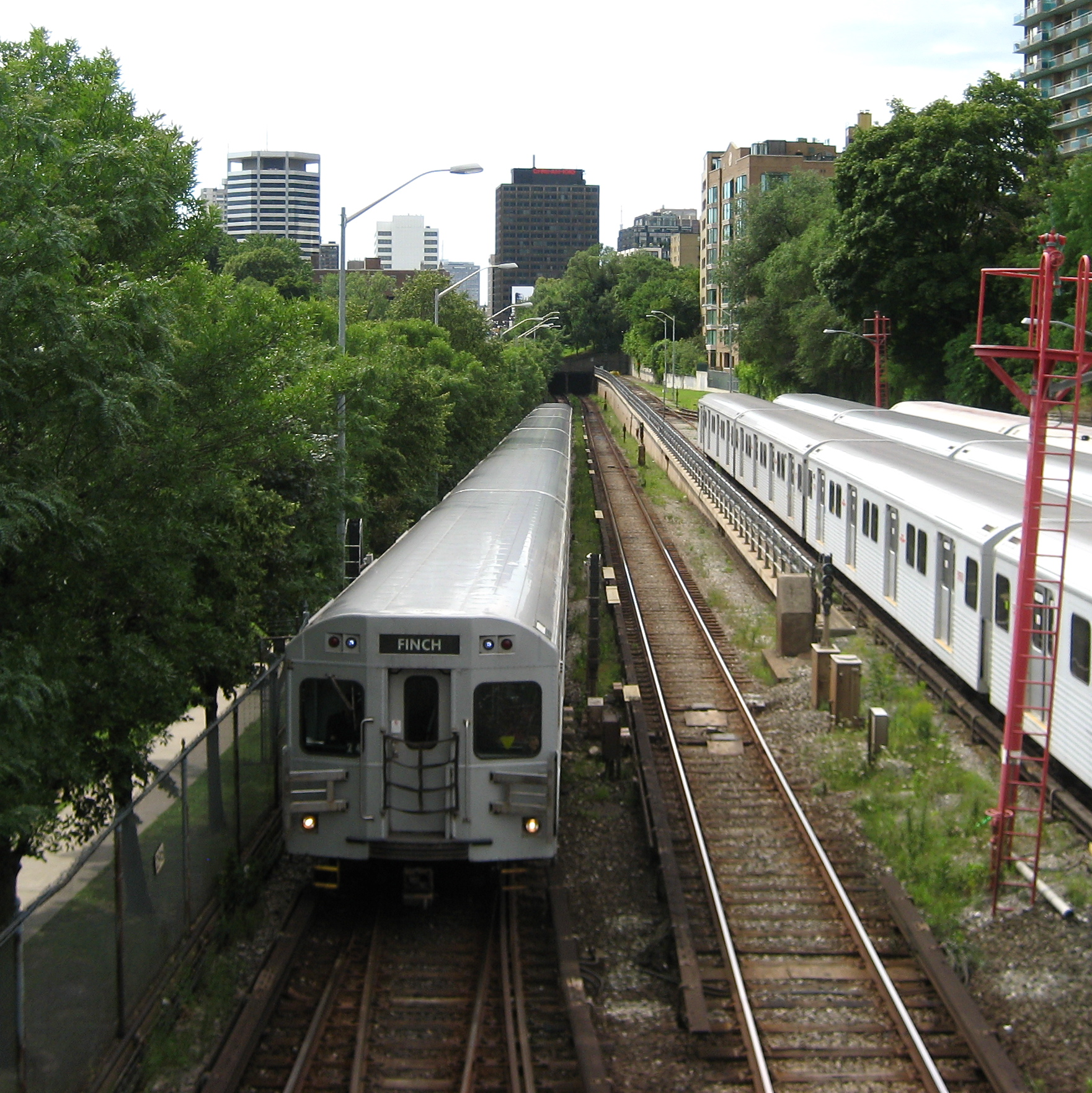 Yonge-University-Spadina Subway, Toronto Transit Commission